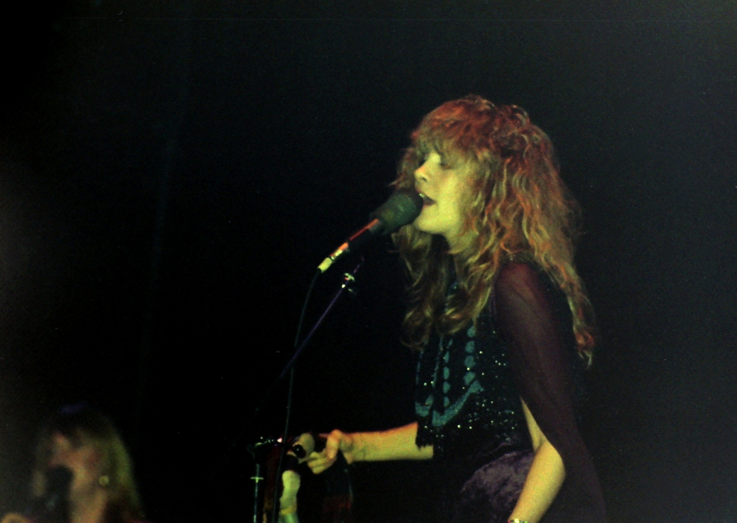 Stevie Nicks with Fleetwood Mac in 1977.